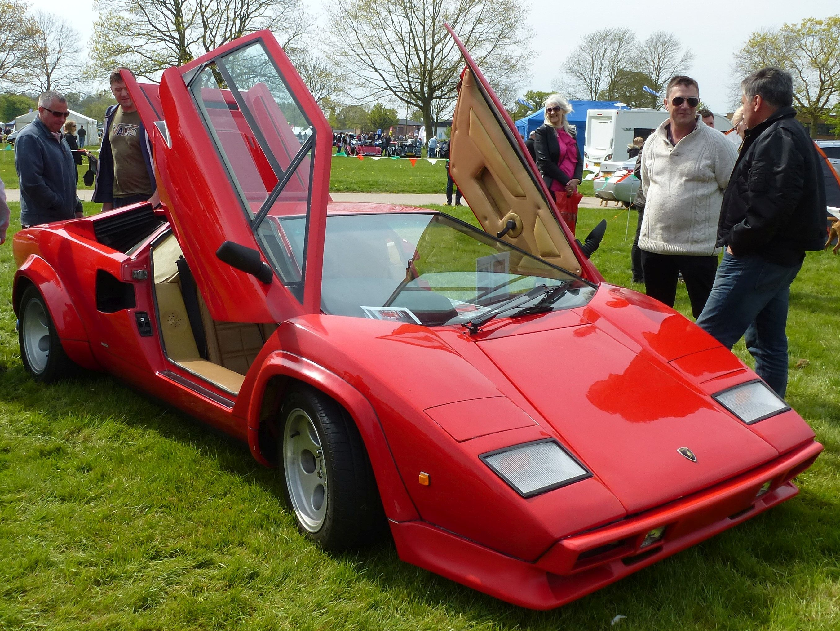 Masterco Countach